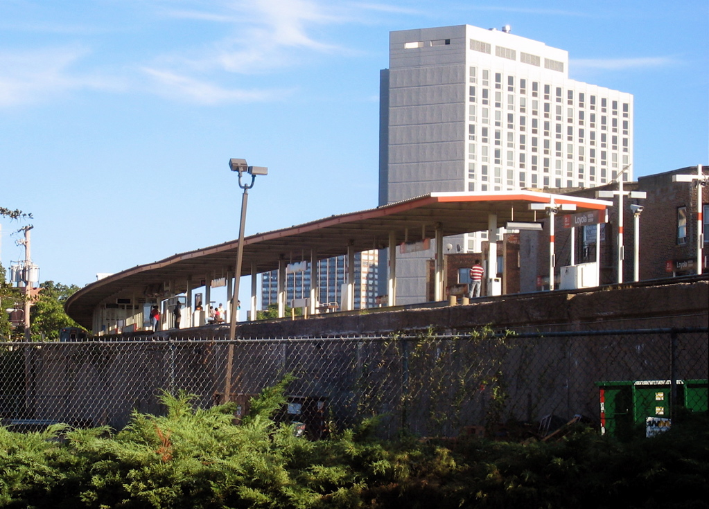 Loyola Station on the CTA red line (West Albion Avenue, Chicago, Illinois.)